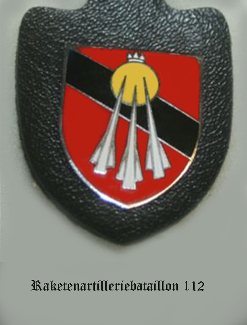 Internal coat of arms Raketenartilleriebataillon 112 (RakArtBtl 112) of the Bundeswehr (Armed Forces of the Federal Republic of Germany). → Remarks on naming and categorization scheme